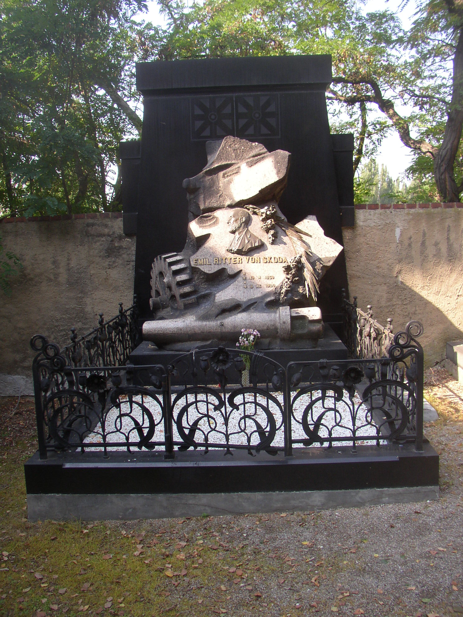 Grave of Emil Škoda, St. Nicholas Cemetery (Mikulášský hřbitov) in Plzeň, Czech Republic